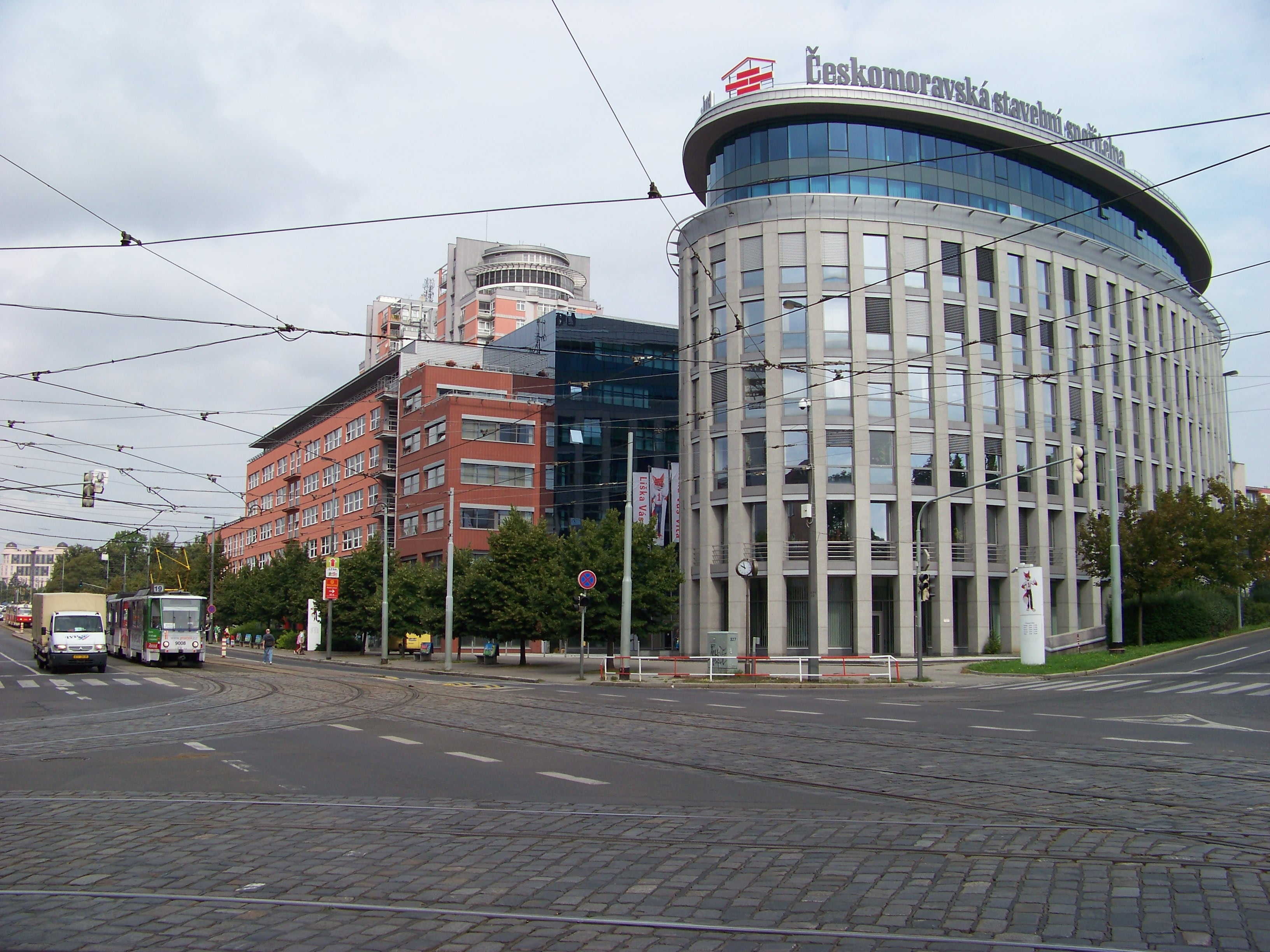 Prague-Strašnice, the Czech Republic. Vinohradská street, Vinice commercial center.